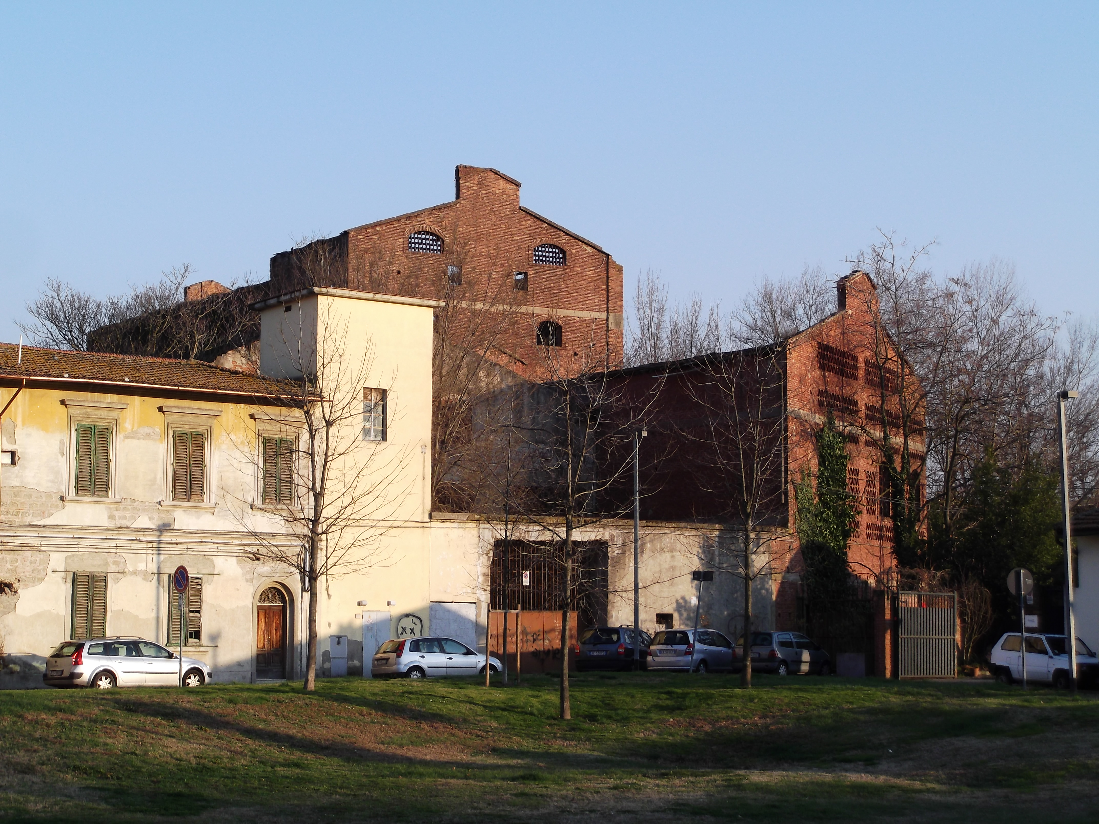 Ex fabbrica Campolmi